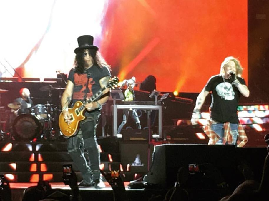 AXL & SLASH